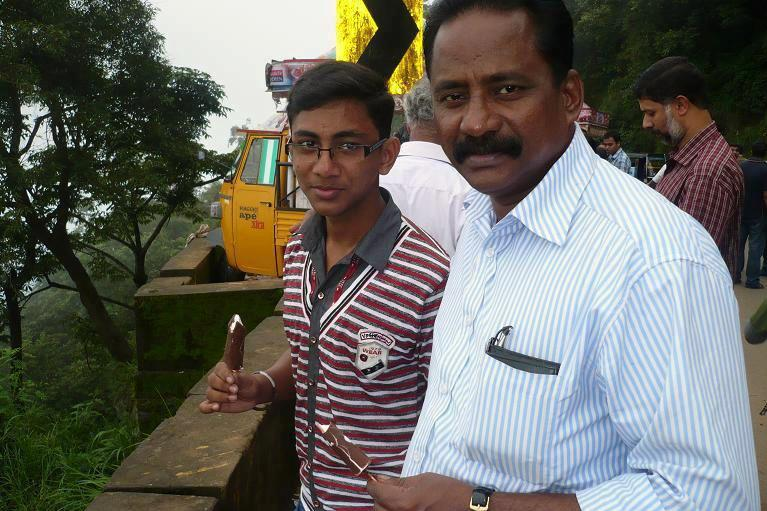 T. P. Chandrasekharan Founder Revolutionary Marxist Party, enjoying an ice cream with his son Nandu in Wayanad